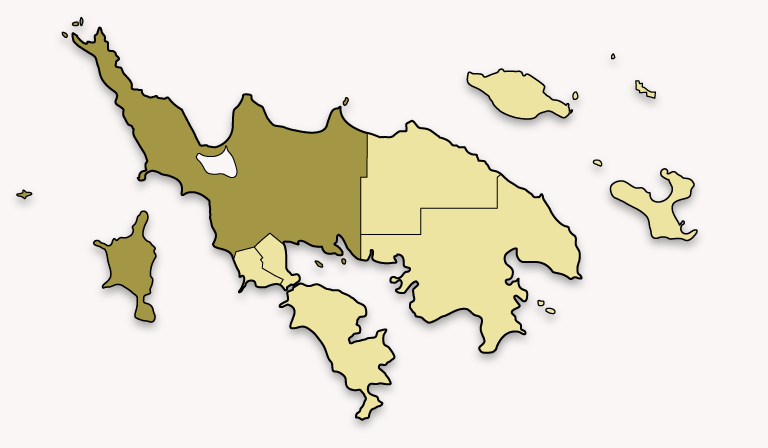 Map of Culebra (Puerto Rico) highlighting Flamenco ward